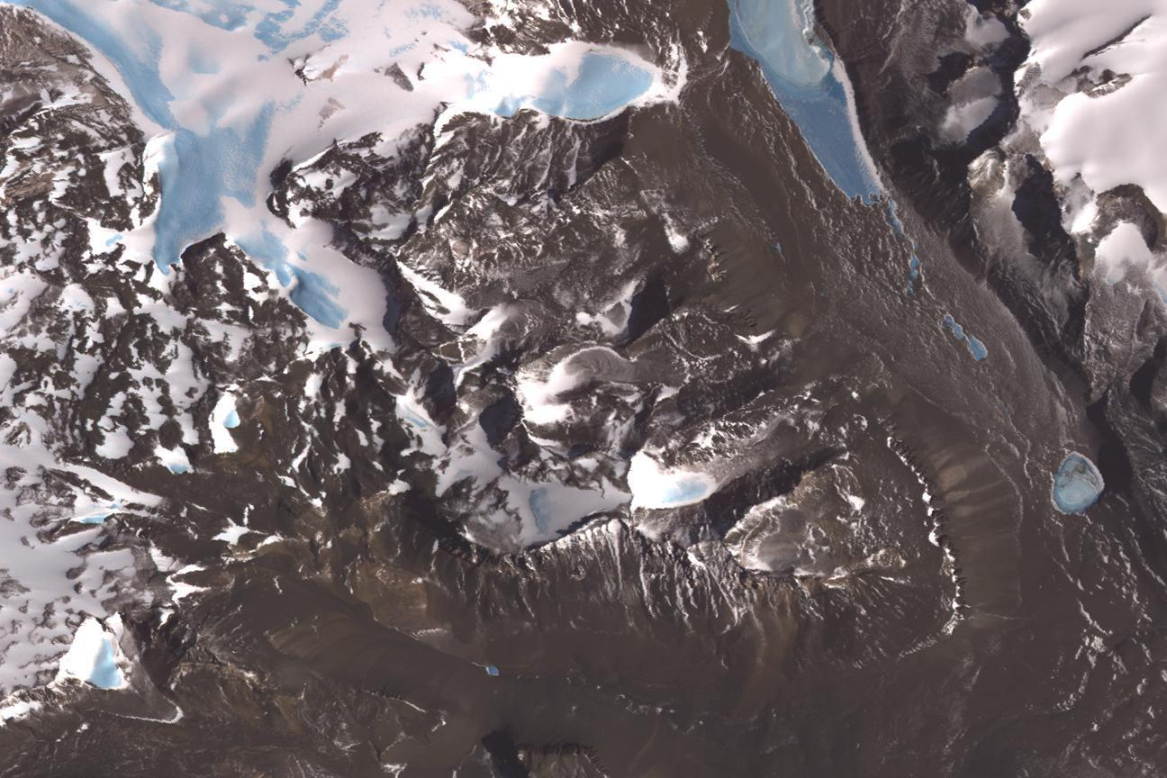 Satellite image of the Apocalypse Peaks between Barwick and Balham Valleys in McMurdo Dry Valleys, Victoria Land, Antarctica, taken by ASTER Earth-observing instrument on NASA's Terra satellite